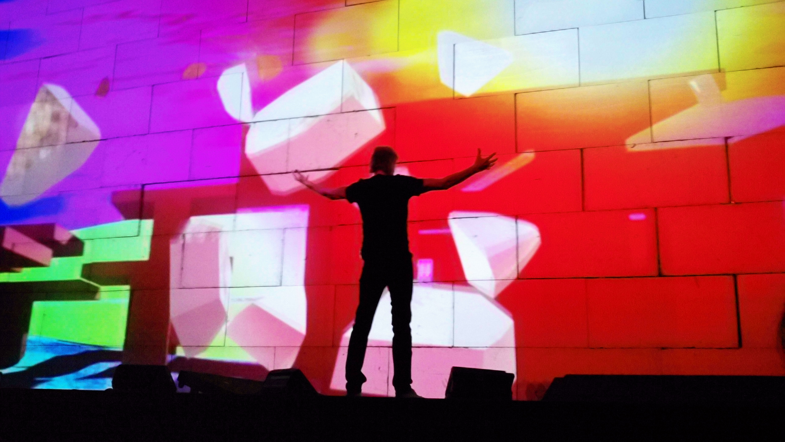 I took this photo in Kansas City from the 2nd row using my Koday Playsport 5mp camera. The band was playing "Comfortably Numb" when the photo was taken.